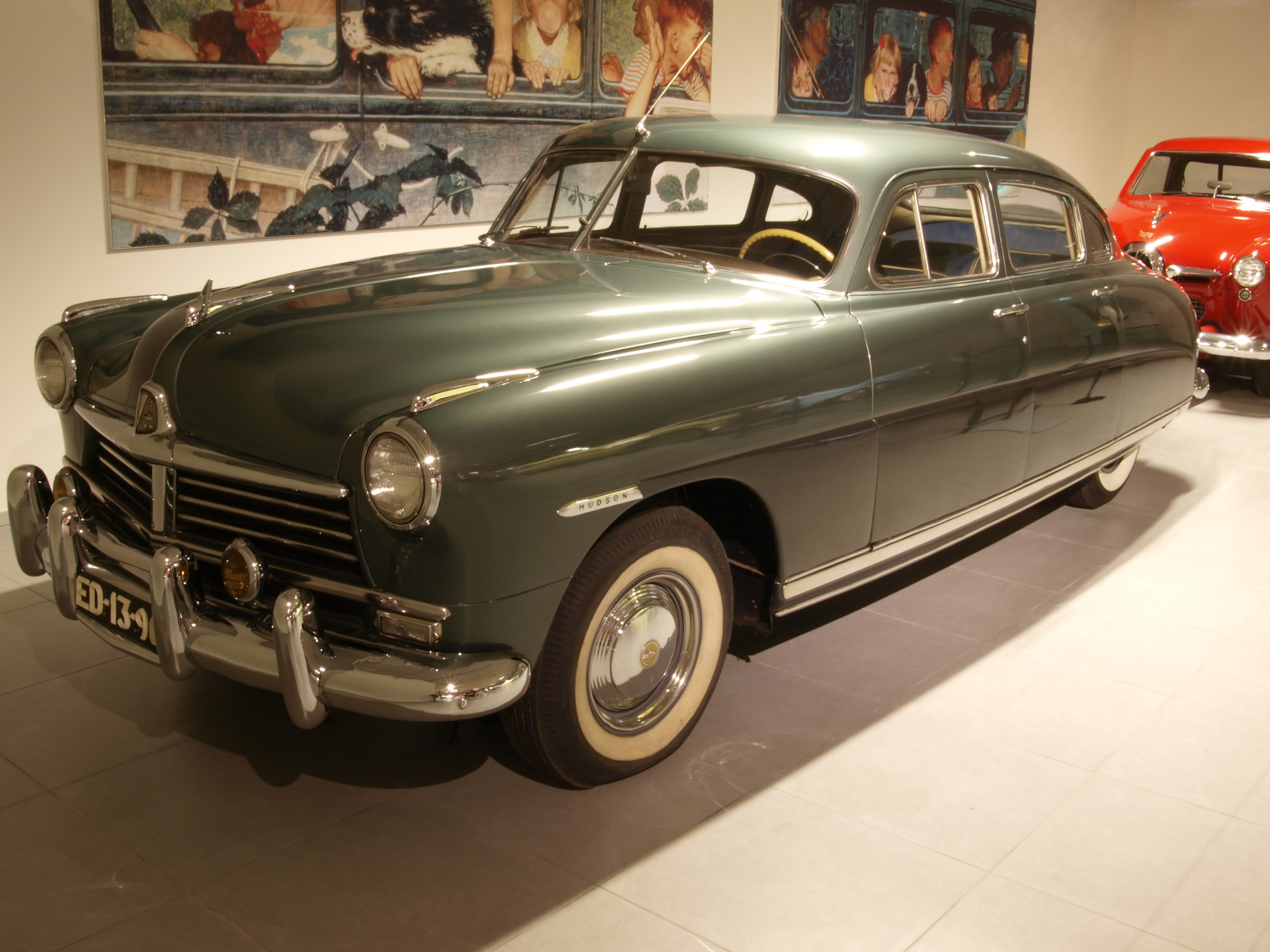 Photographed at the Louwman museum / Louwman Collection, The Netherlands.